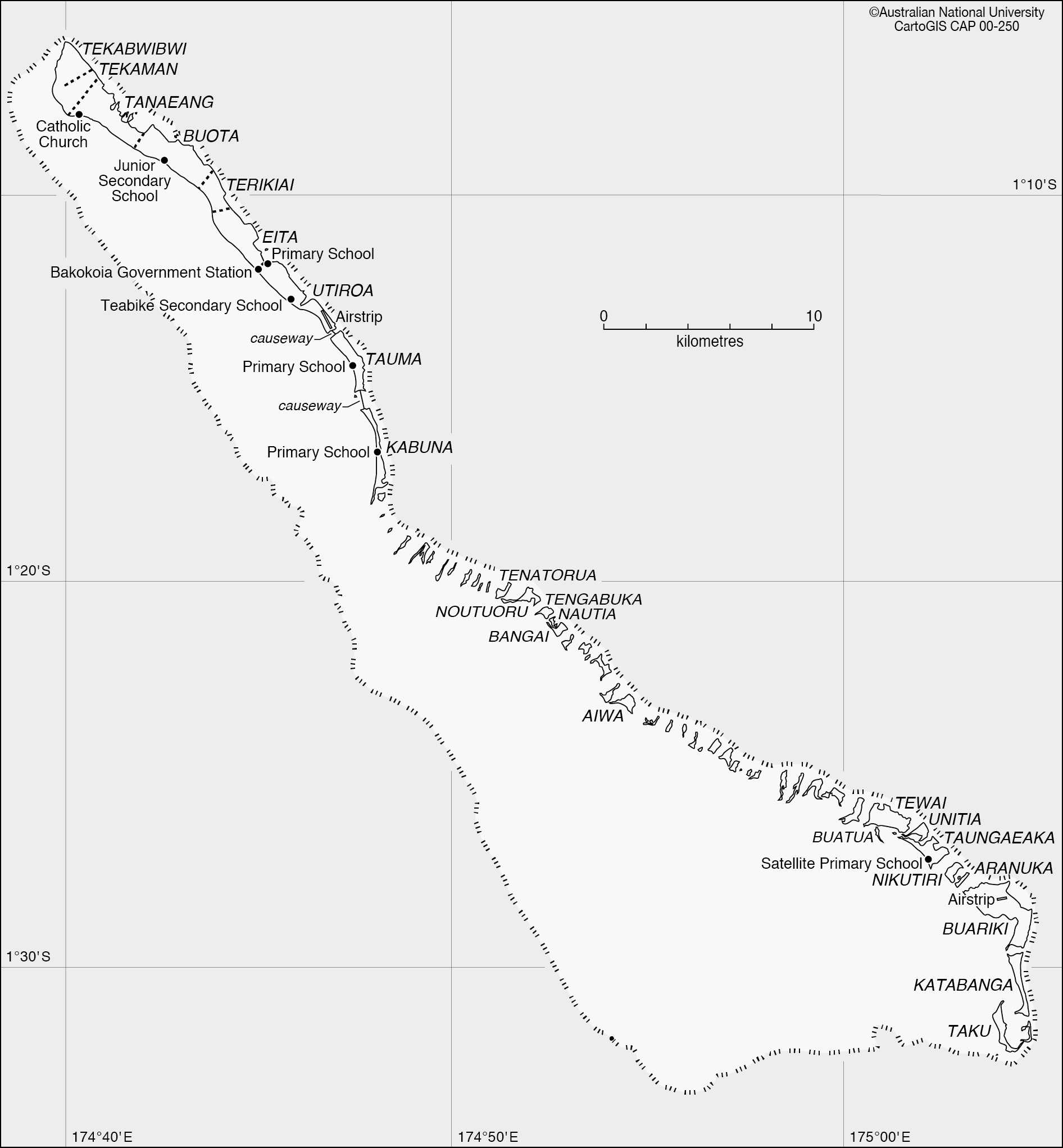 map of Tabiteuea Atoll, Gilbert Islands, Kiribati, Micronesia, Pacific Ocean